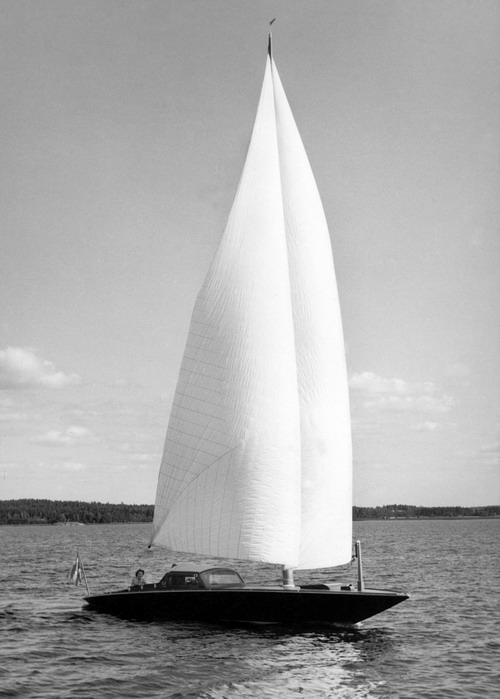 Ljungström sailboat, designed by Fredrik Ljungström, Lidingö Sweden.